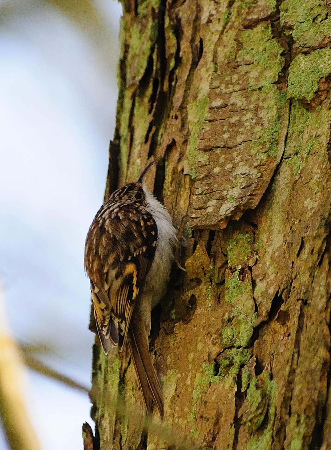 Eurasian Treecreeper Certhia familiaris, Hawthorn Dene, Co Durham, UK. It is climbing up a tree trunk.